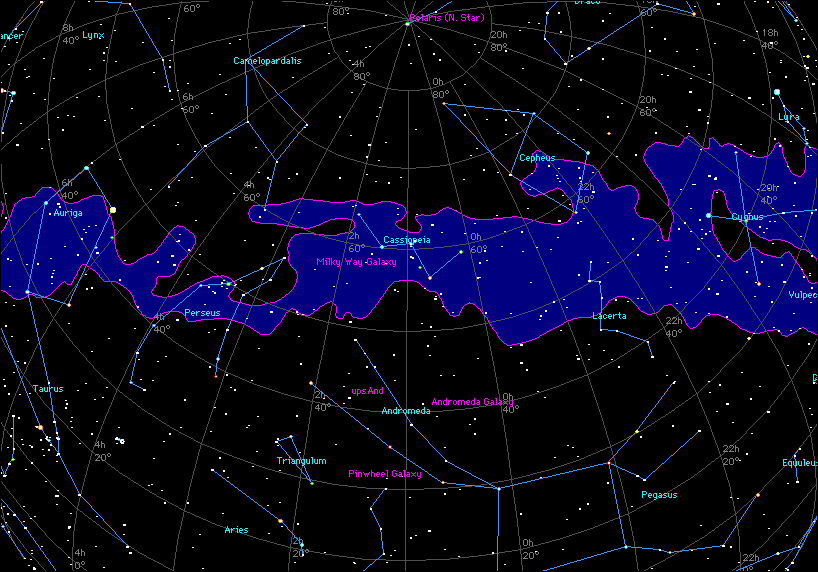 Map of the heavens showing Cassiopeia and other constellations in relation to the Milky Way.